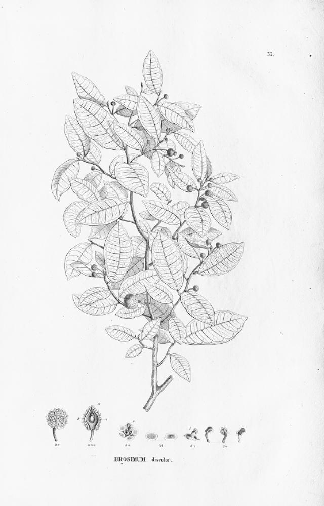 Illustration of Brosimum guianense (Orig. Brosimum discolor)